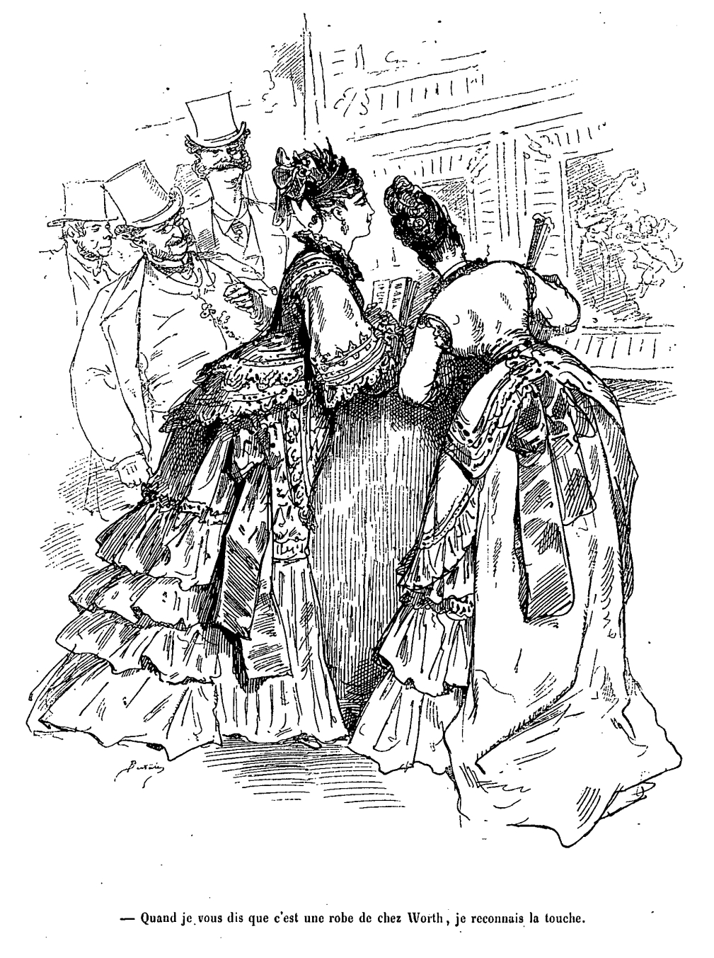 "Quand je vous dis que c'est une robe de chez Worth, je reconnais la touche." ("I told you it was a dress from Worth's. I know the look."). Cartoon by French illustrator Bertall (1820-1882) showing two ladies at an art museum. "Worth" is the fashion designer Charles Frederick Worth (1825-1895).